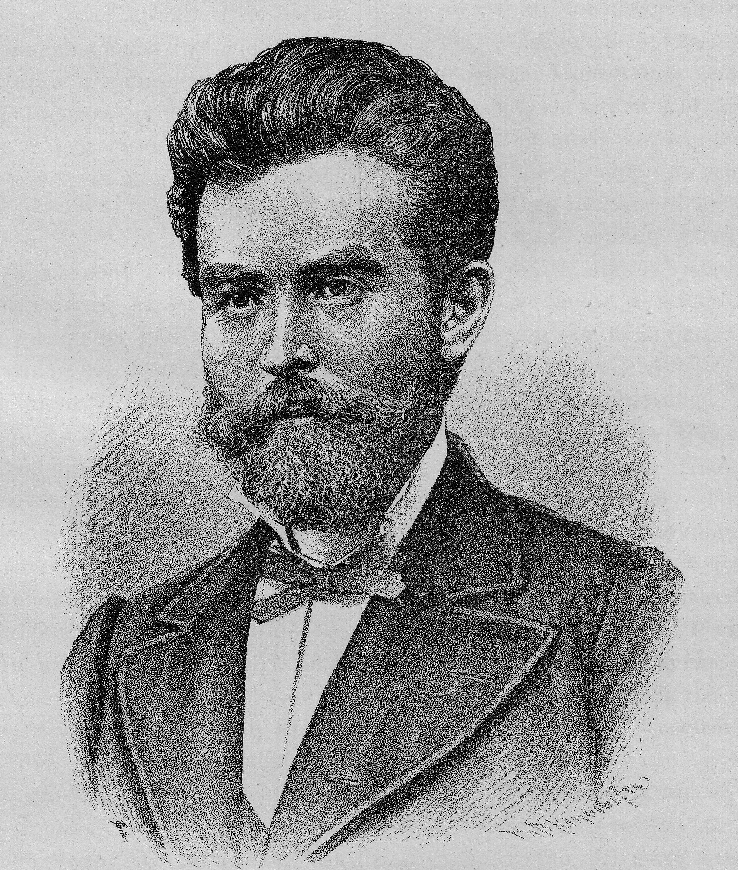 Vladimir Krasić (1851-1890), Serbian teacher, historian and pedagogical writer. Taken from the 1892 edition of the illustrated calendar Orao. Srpski (latinica): Vladimir Krasić (1851-1890), srpski učitelj, istoričar i pedagoški pisac. Preuzeto iz izdanja ilustrovanog kalendara Orao za 1892. godinu.